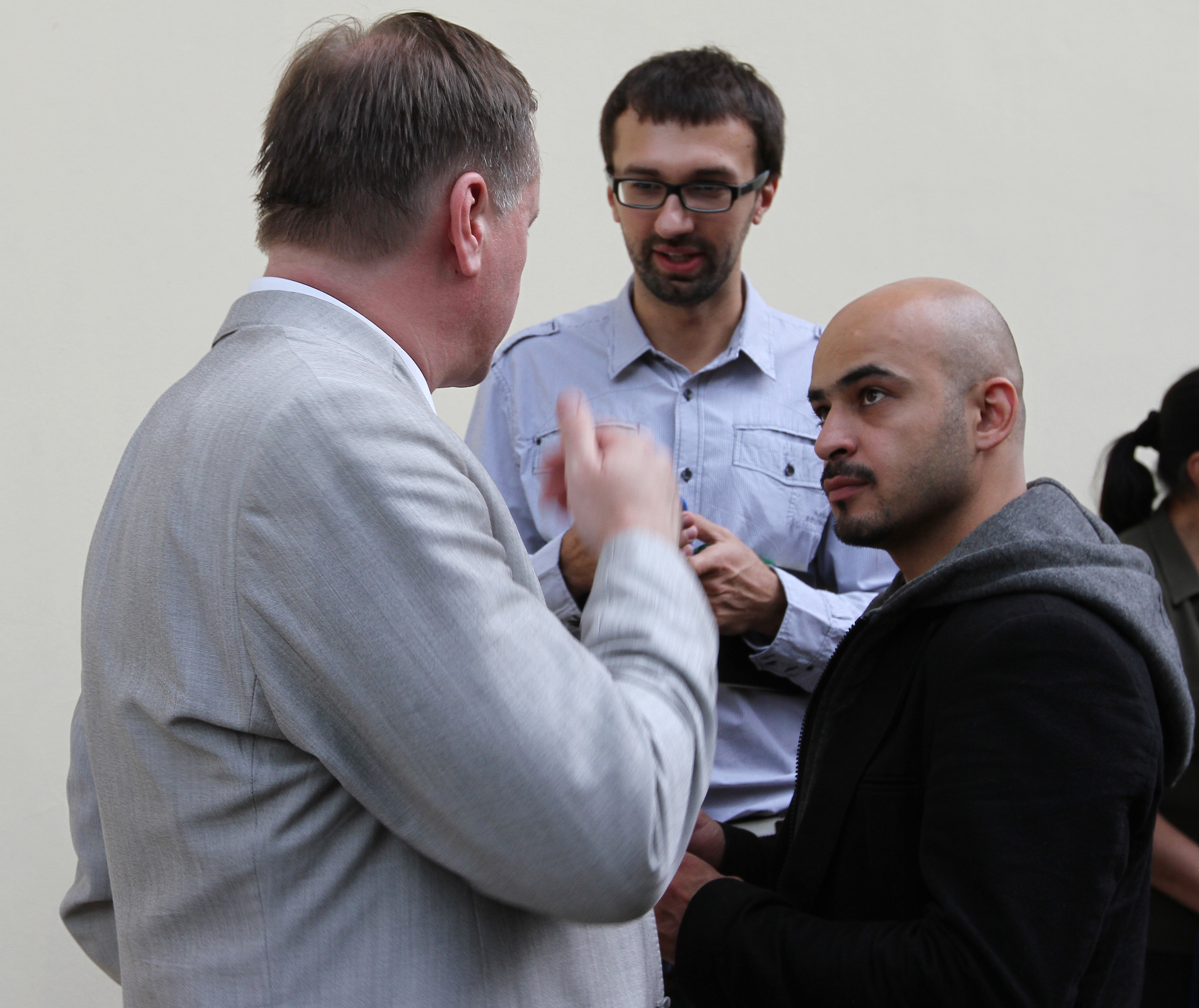 Independence Day Celebration in Kyiv, Ambassdor's residence, July 6, 2011; "Ukrayinska pravda" journalist, Serhiy Leshchenko, journalist Mustafa Nayyem and Taras Chornovil, People's Deputy